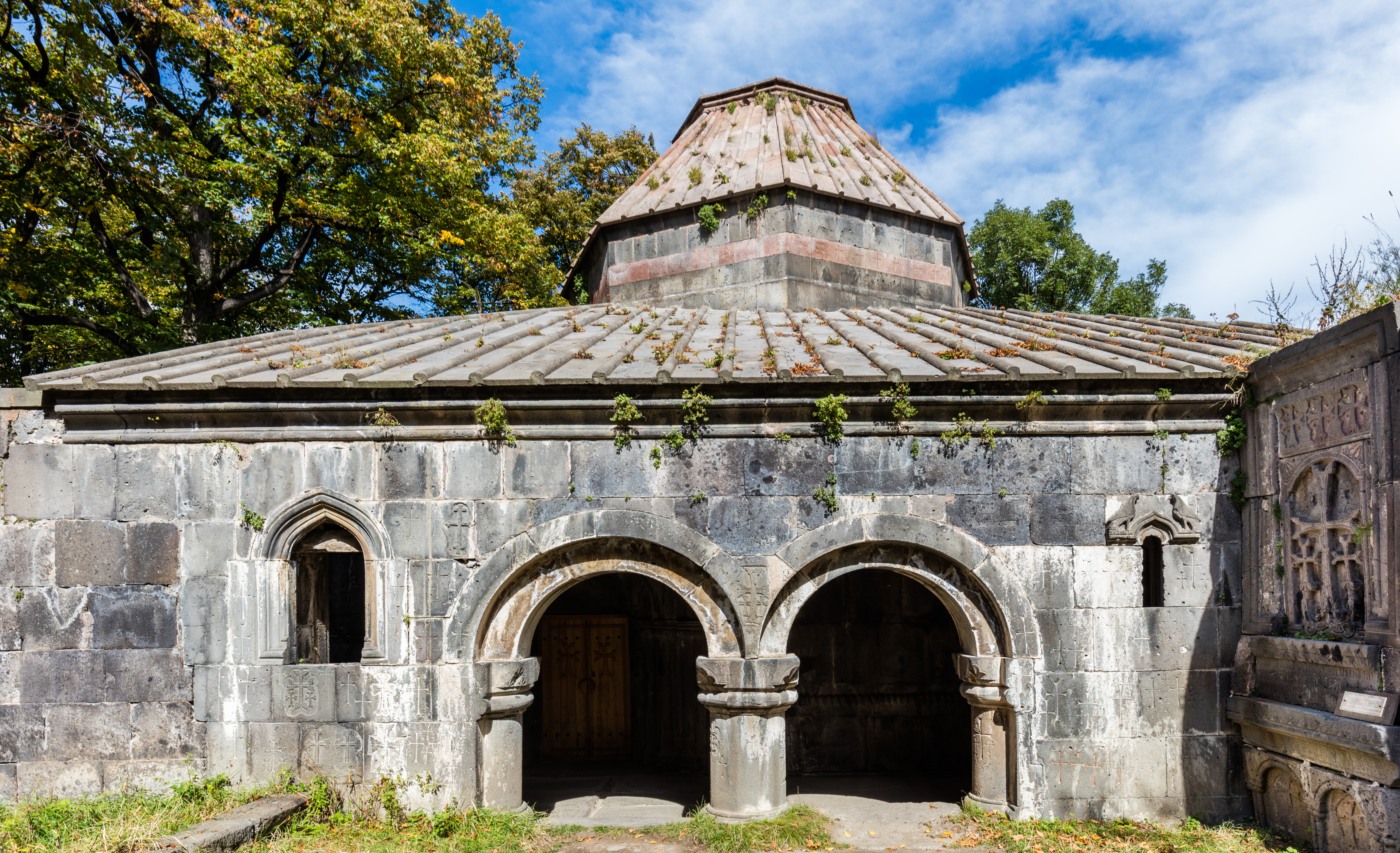 Sanahin Monastery, Armenia